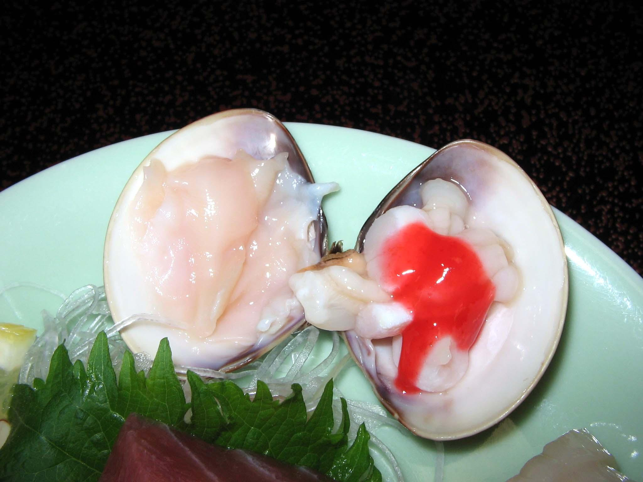 Clam sashimi (Meretrix lusoria, Hamaguri) with Japanese apricot sauce (Prunus mume) in Kuwana, Mie, Japan